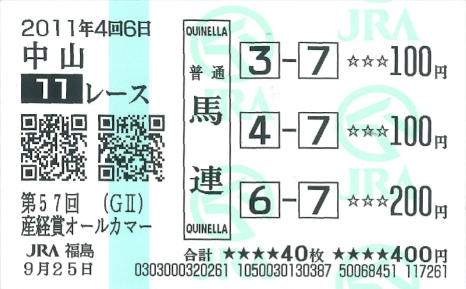 Betting ticket with QR code, issued by JRA Fukushima Racecource at Fukushima city, Fukushima, Japan.